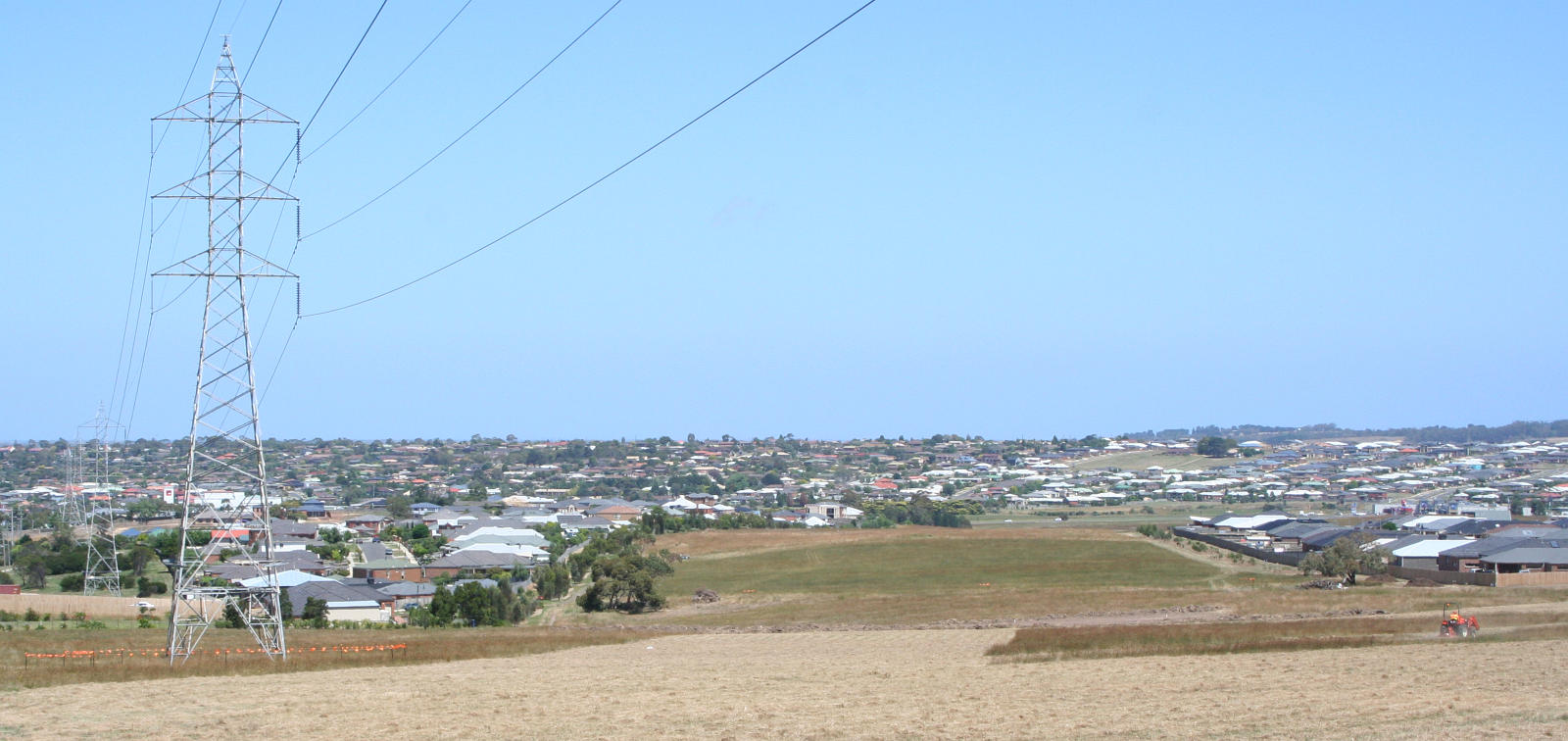 Overview of Grovedale and Waurn Ponds looking to the south from Pigdons Road - Geelong, Victoria, Australia